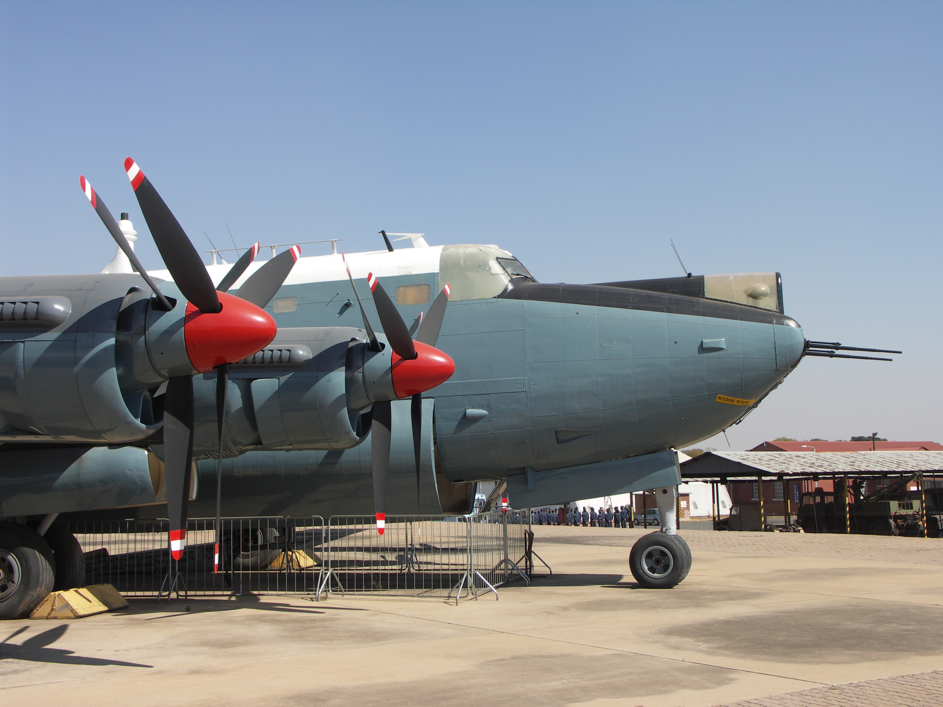 Avro Shackleton South African Air Force Museum, Swartkop